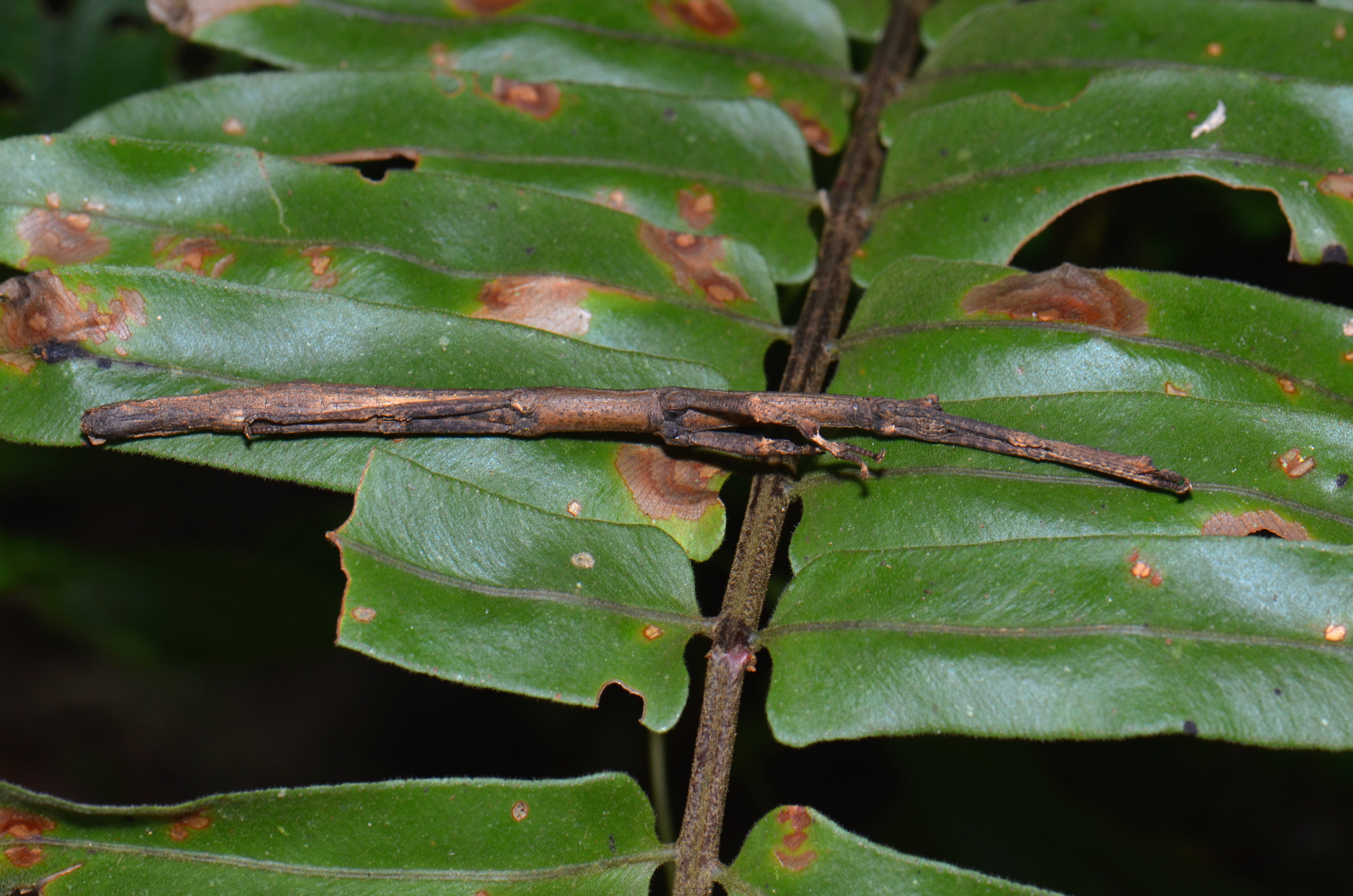 Stick bug playing dead